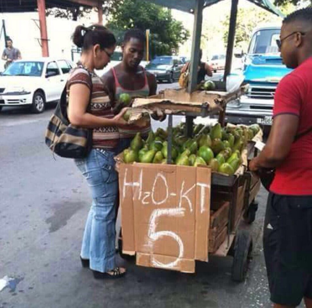 Selling of avocados in Santo Domingo, DR. The sign "H2O KT" is a play on aguacate, the Spanish term for avocado.